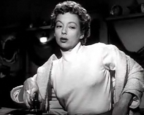 Screenshot of Evelyn Keyes from the trailer for the film 99 River Street (1953).